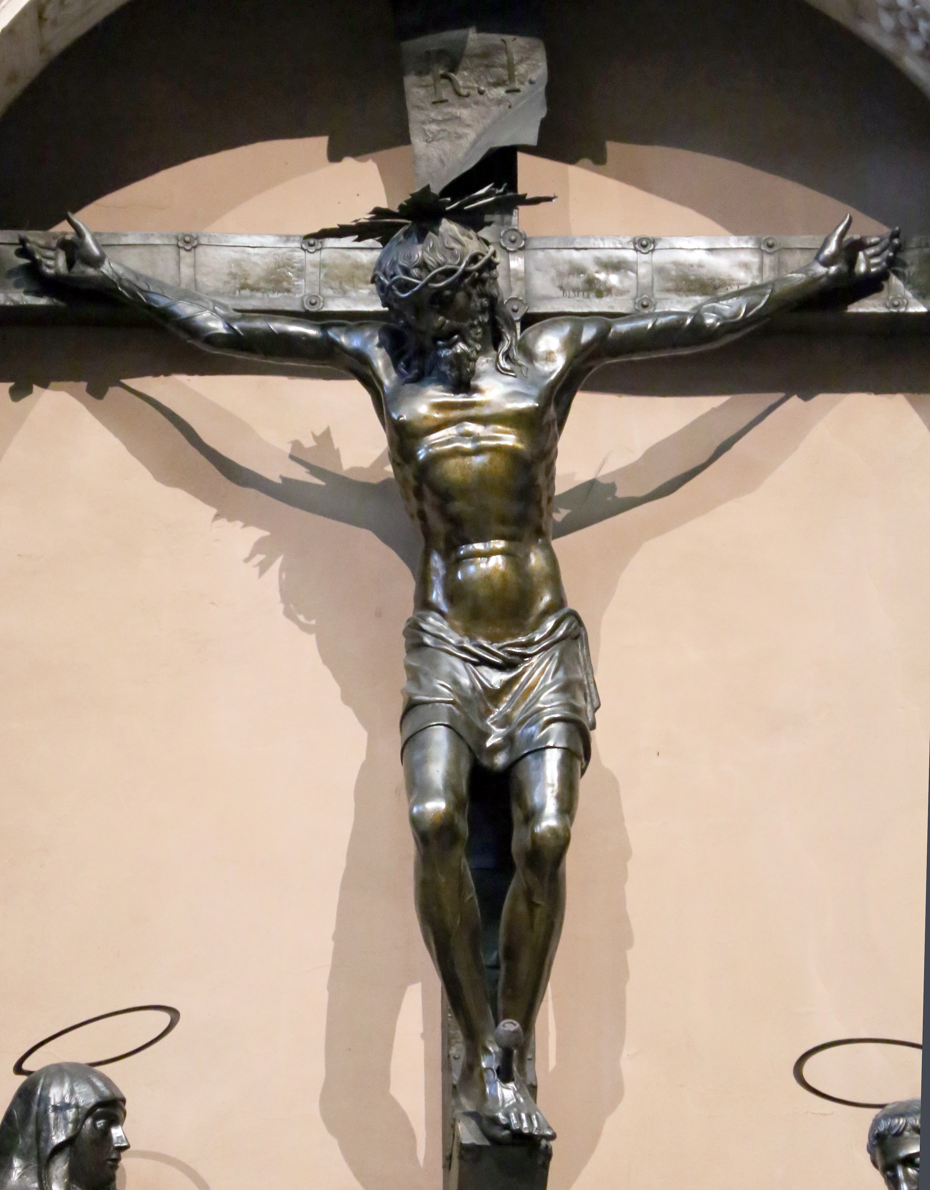 Cathedral (Ferrara) - Interior